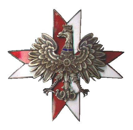 Badge of the Polish 1st Uhlan Regiment Krechowieckich (of Krechowce) (pre-WW2)